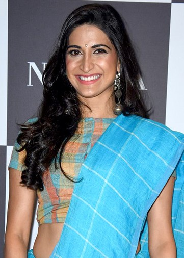 Aahana Kumra on Day 2 of Lakme Fashion Week 2017.